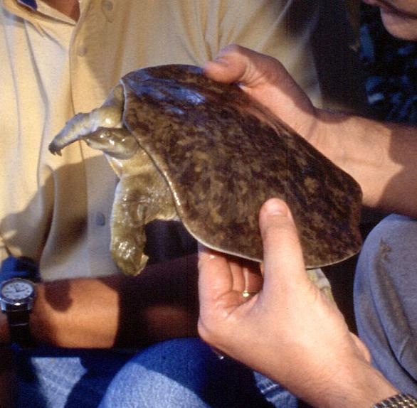 Original description: “ARS ecologist Scott Knight (left) and University of Mississippi graduate student Ben Cash observe a red-eared slider turtle taken from Deep Hollow Lake near Greenwood, Mississippi.” The species was identified incorrectly. It is probably Apalone mutica or Apalone ferox.